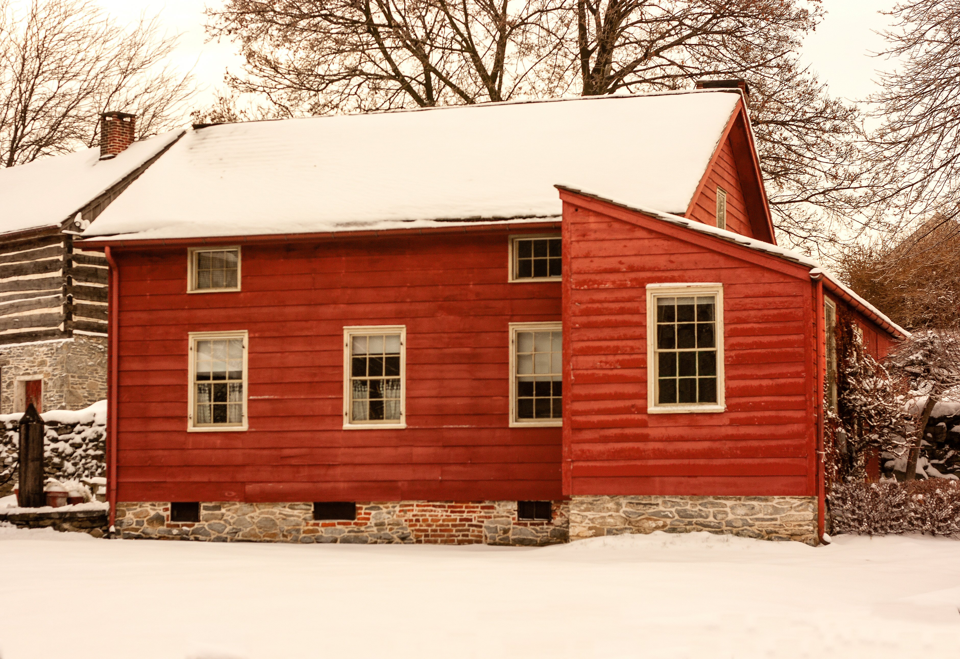 Photo of the Summer Kitchen at the Hess Homestead